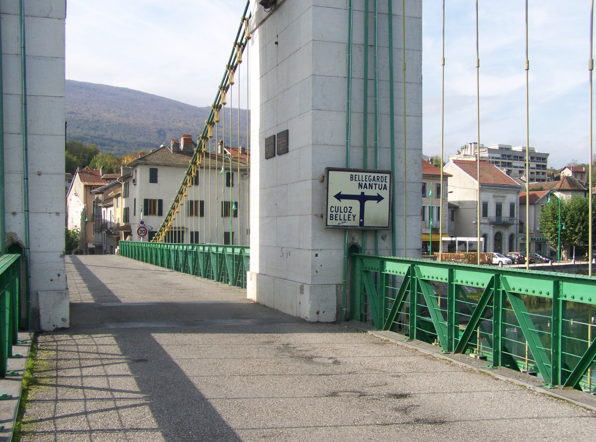 French road RD 991 crossing the river Rhône on the Vieux Pont de Seyssel bridge, between Haute-Savoie and Ain.